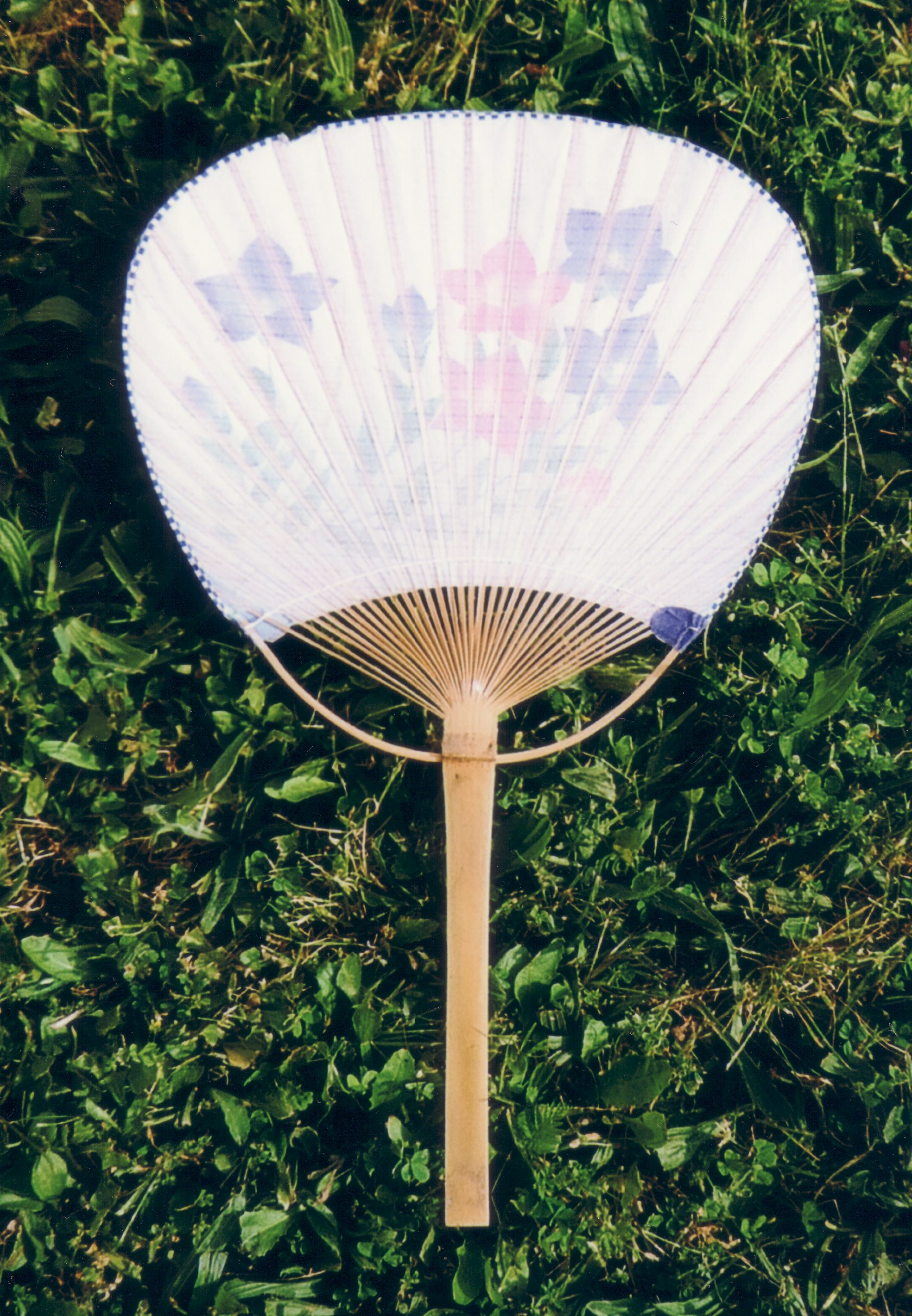 Uchiwa, a type of Japanese fan